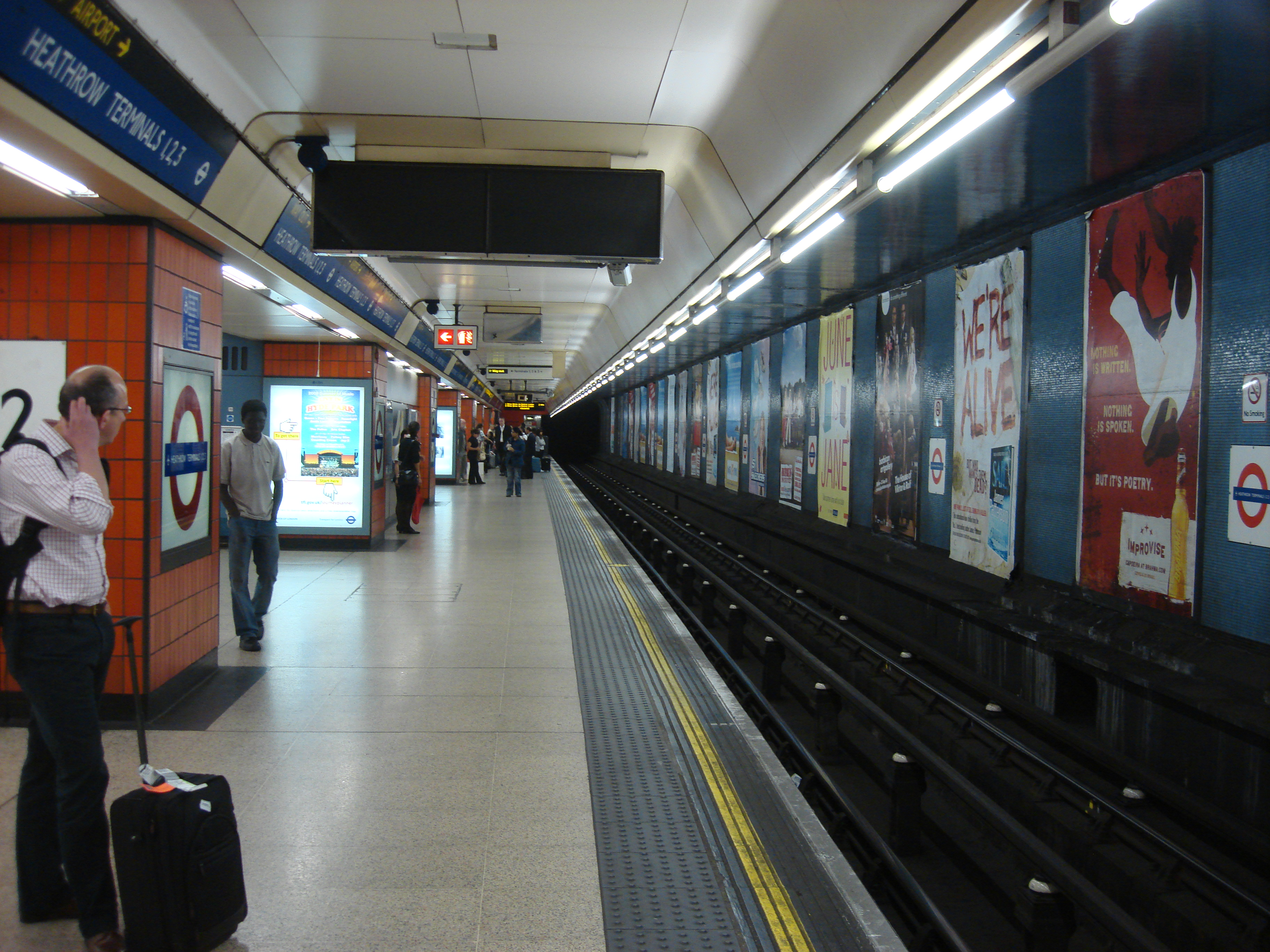 Platform at Heathrow Terminals 1, 2, 3 tube station